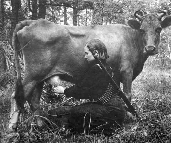 Anna Khobotneva from the Soviet partisan detachment named Chapayev is milking a cow for the wounded.